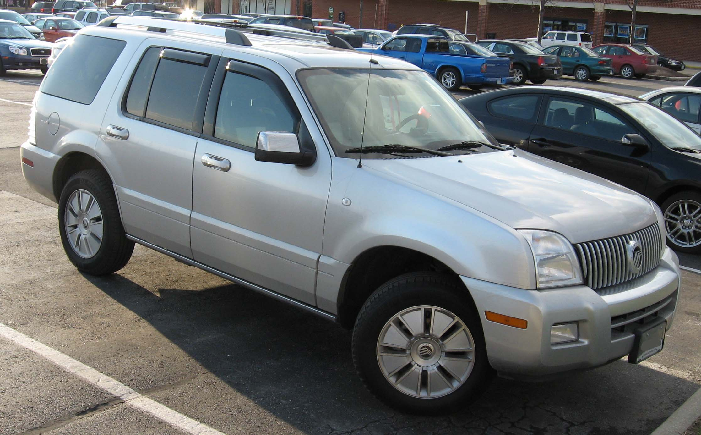 2006-2007 Mercury Mountaineer photographed in USA.